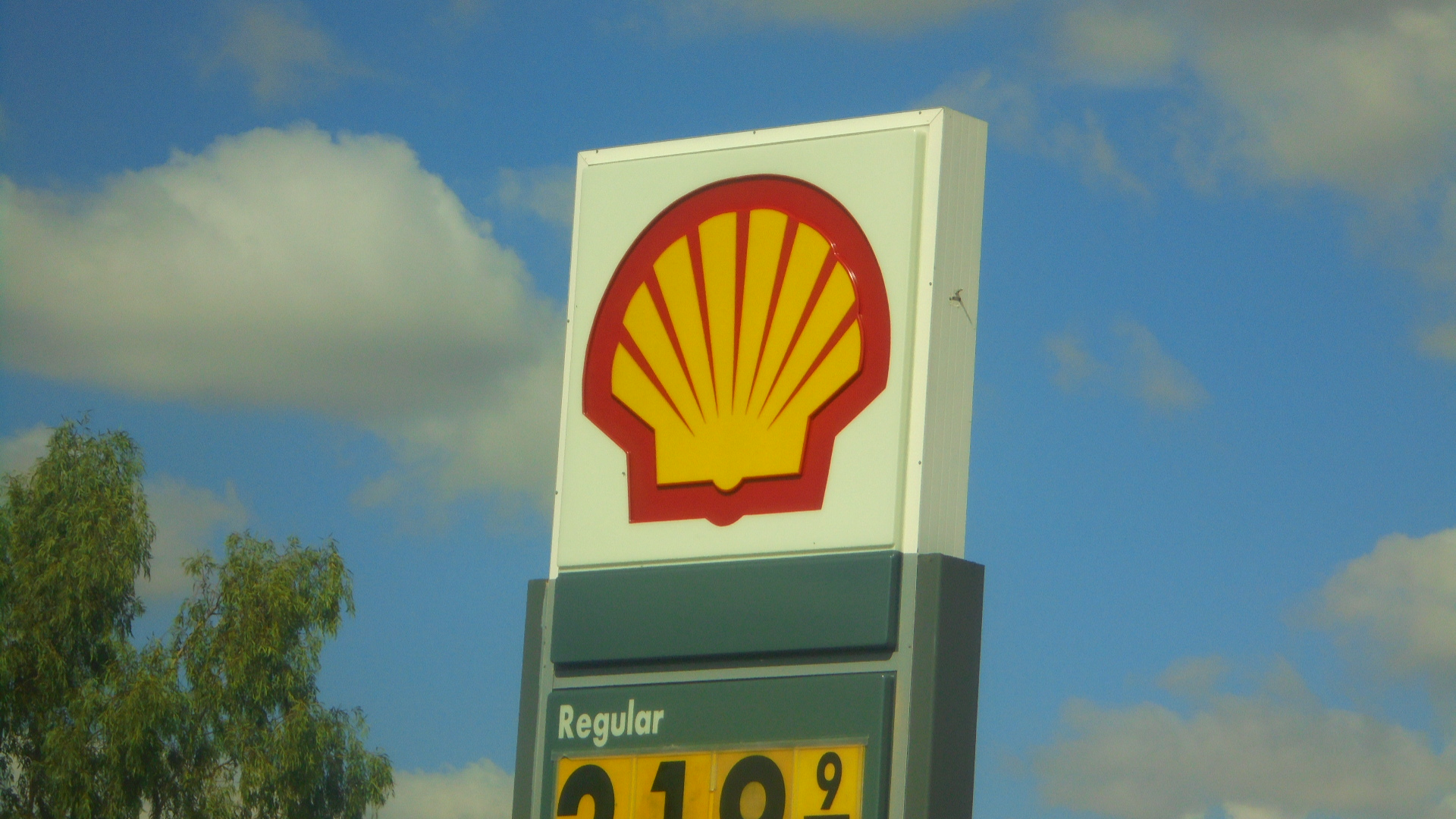 Shell gas sign